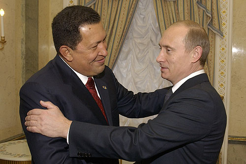 THE KREMLIN, MOSCOW. Meeting with Venezuelan President Hugo Chavez.